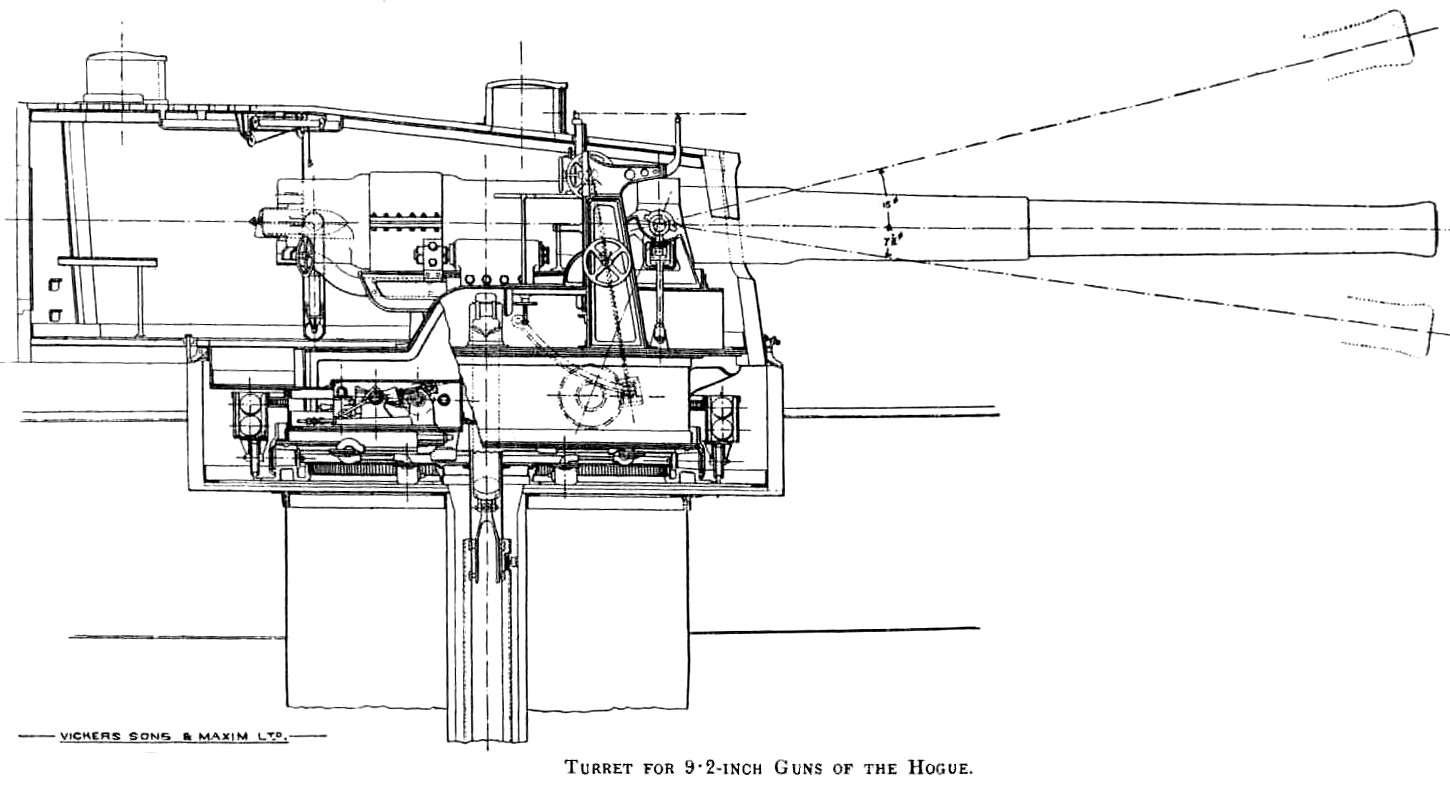 Diagram showing right elevation of BL 9.2 inch Mk X gun turret for British Cressy class armoured cruisers.